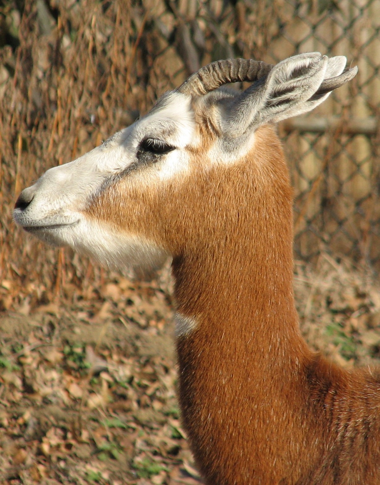 Gazella dama mhorr at Louisvill Zoo